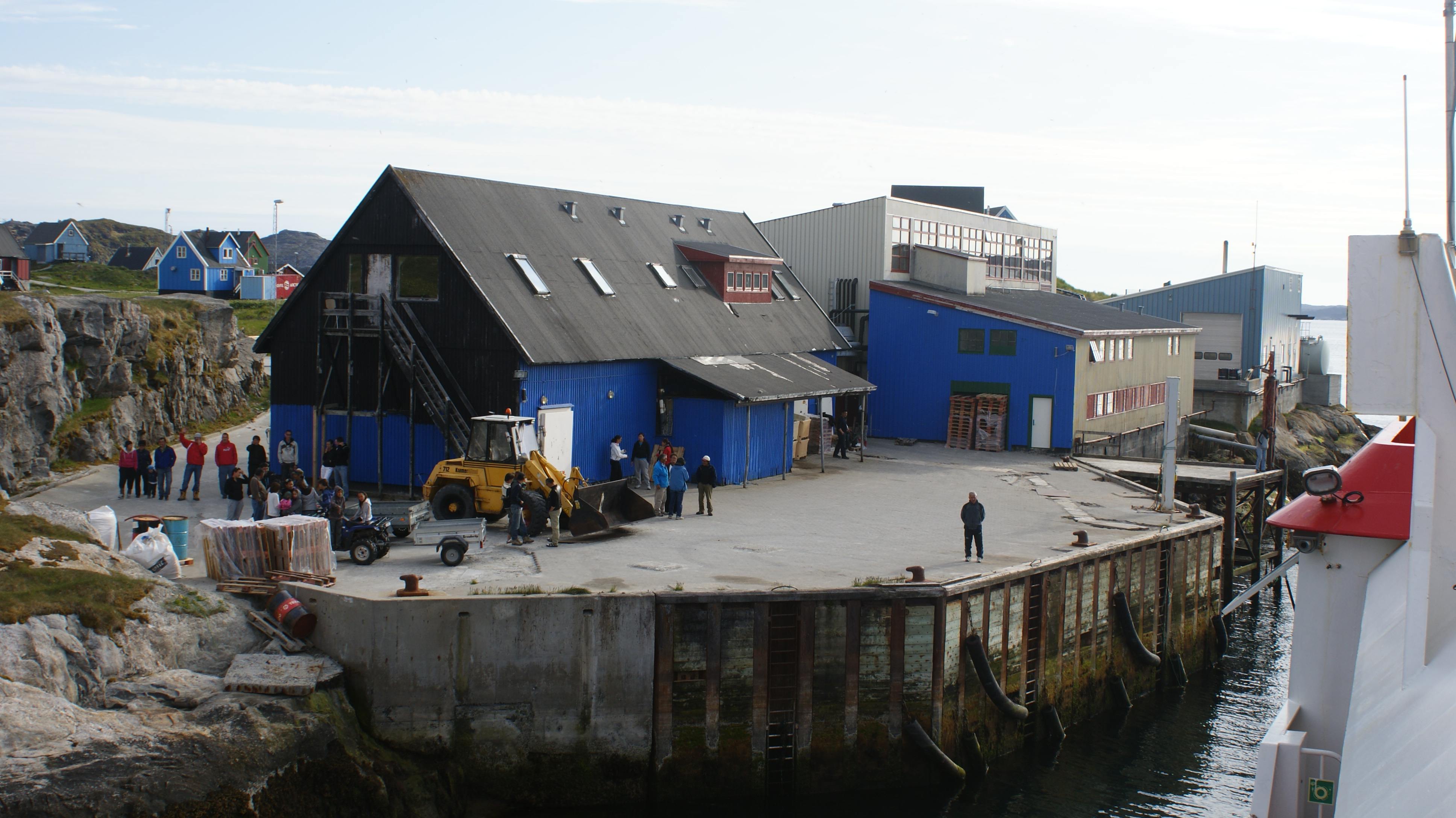 Port in Qeqertarsuatsiaat, a settlement on the shore of Labrador Sea, Sermersooq, southwestern Greenland, photographed from Sarfaq Ittuk of Arctic Umiaq Line